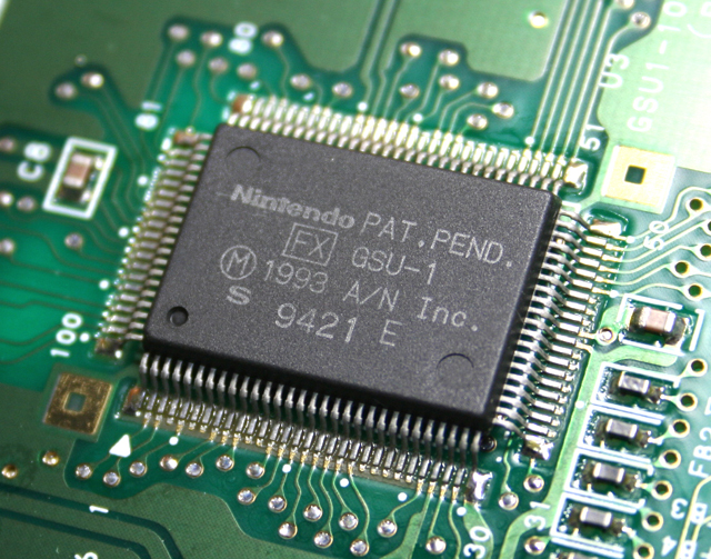 GSU-1(SUPER FX CHIP Version ??) in the GAME of WILDTRACKS,VORTEX for SFC(Japan).